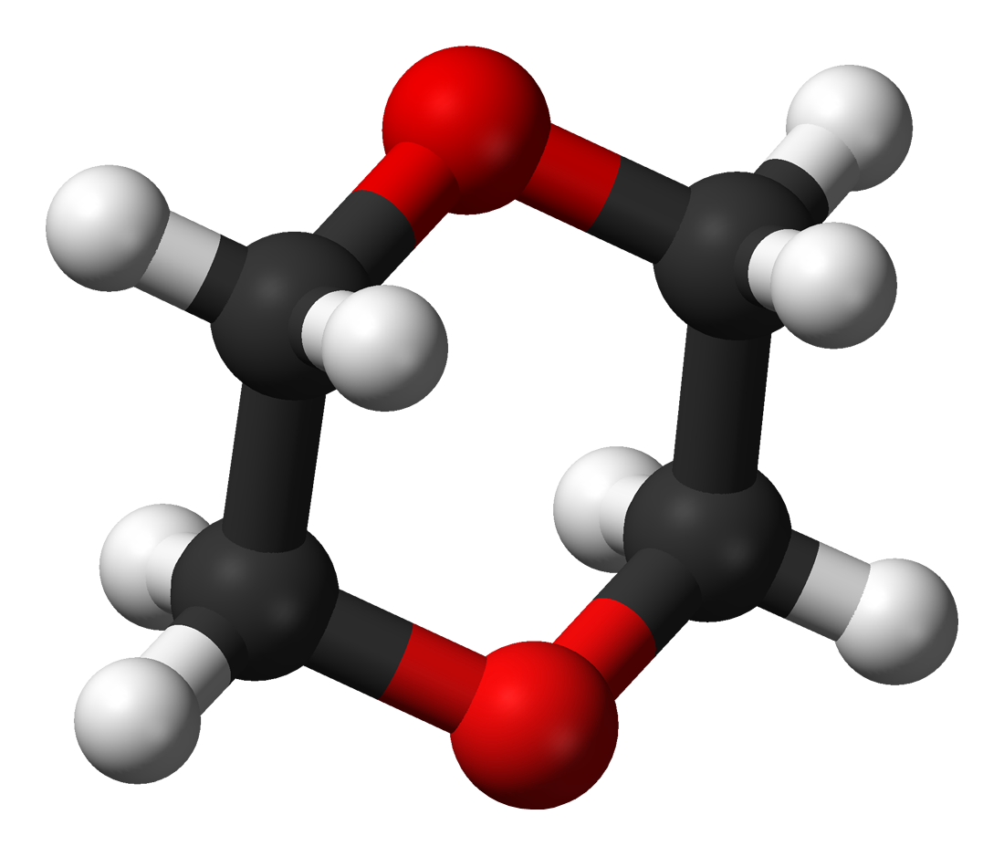 Ball and stick model of the 1,4-dioxane molecule.